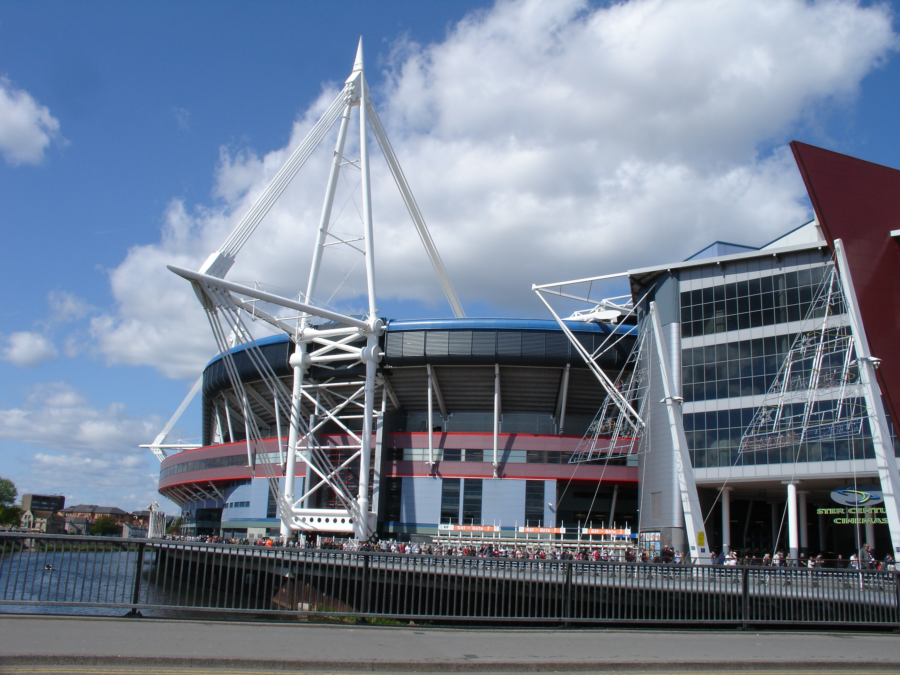 South side of Millennium Stadium in Cardiff. Photo made by Stan Zurek in May 2005.